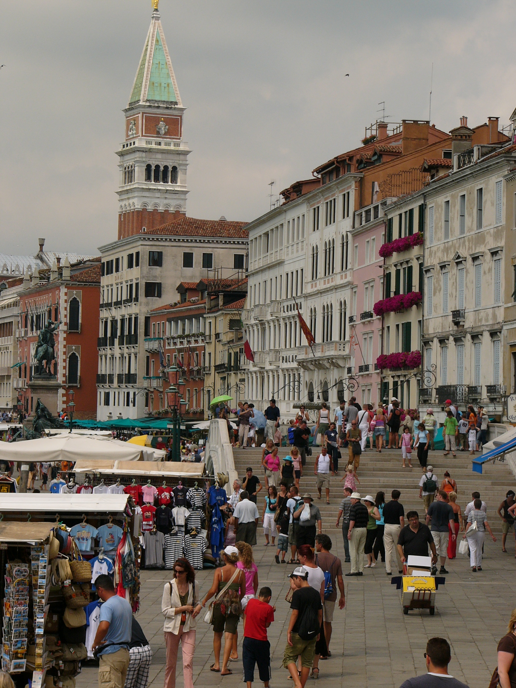 Riva degli Schiavoni in Venice